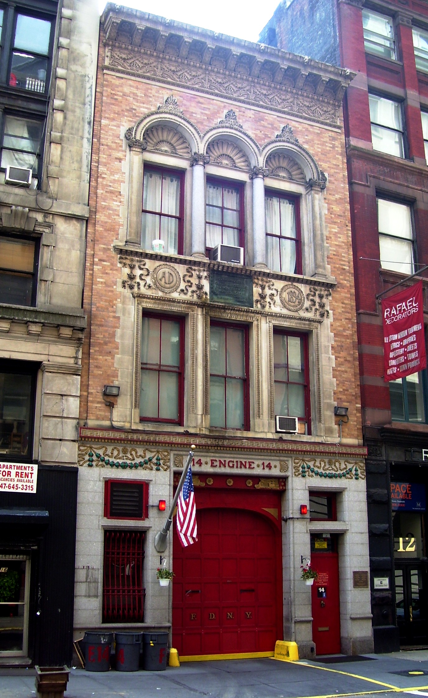 FDNY engine company firehouse at 14 East 18th Street in the Flatiron District, Manhattan, New York City. An 1894 Renaissance Revival building designed by Napoleon Lebrun.